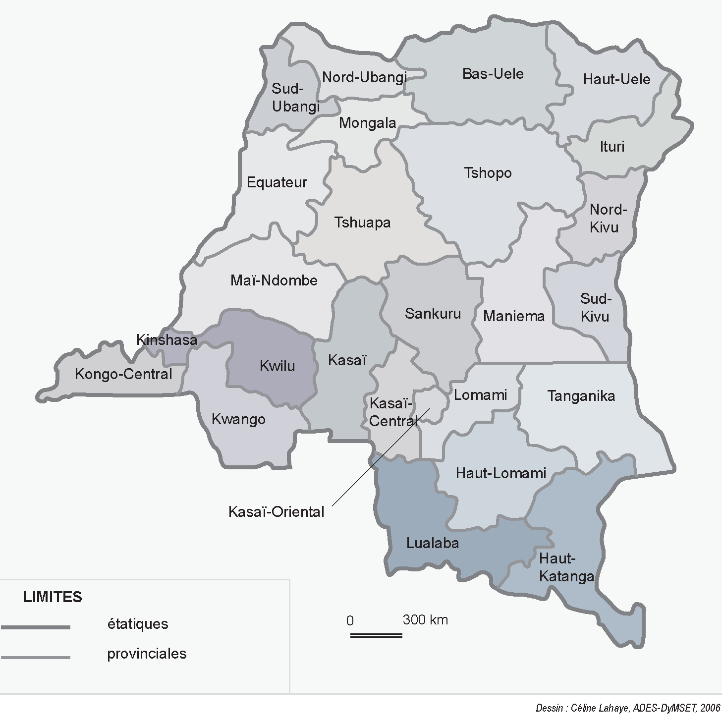 Map of newly formed provinces of the Democratic Republic of the Congo, per 2006 constitution